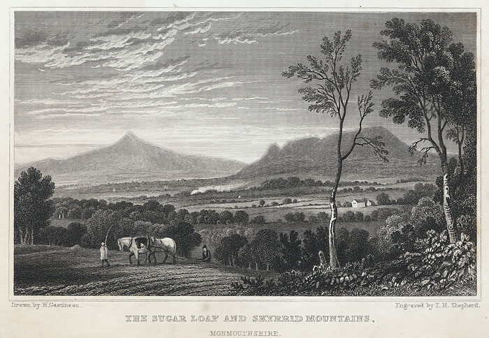 1 print : engraving, b&w ; image size 92 x 149 mm., paper size 135 x 206 mm.